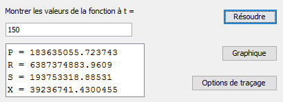 Sortie numérique